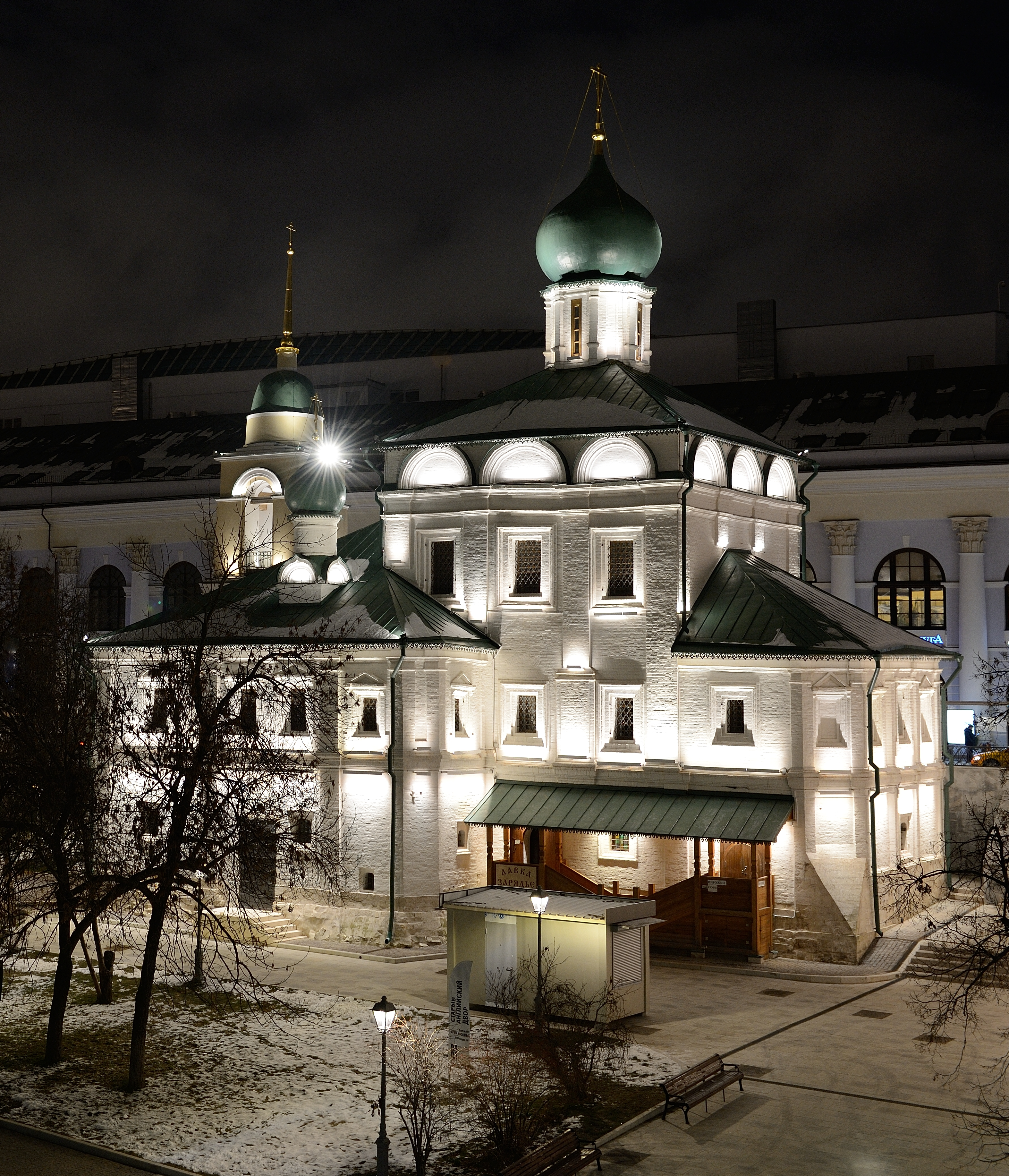 Church of Maximus the Confessor, Moscow, Zaryadye, 15-16 century